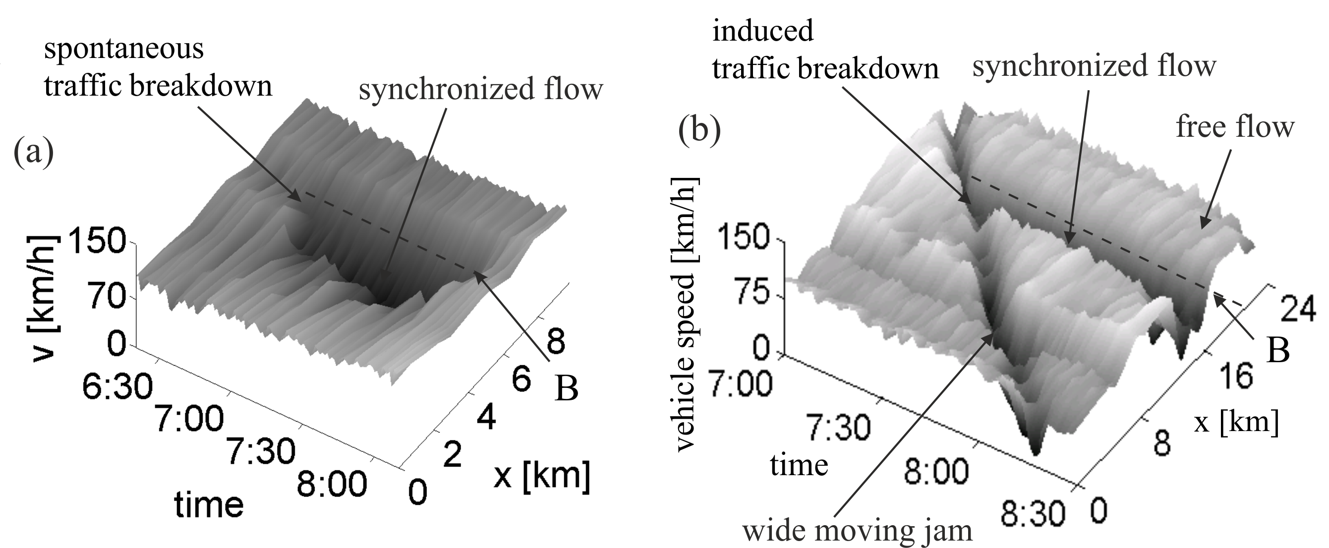 Fundamental empirical features of traffic breakdown (transition) at a highway bottleneck